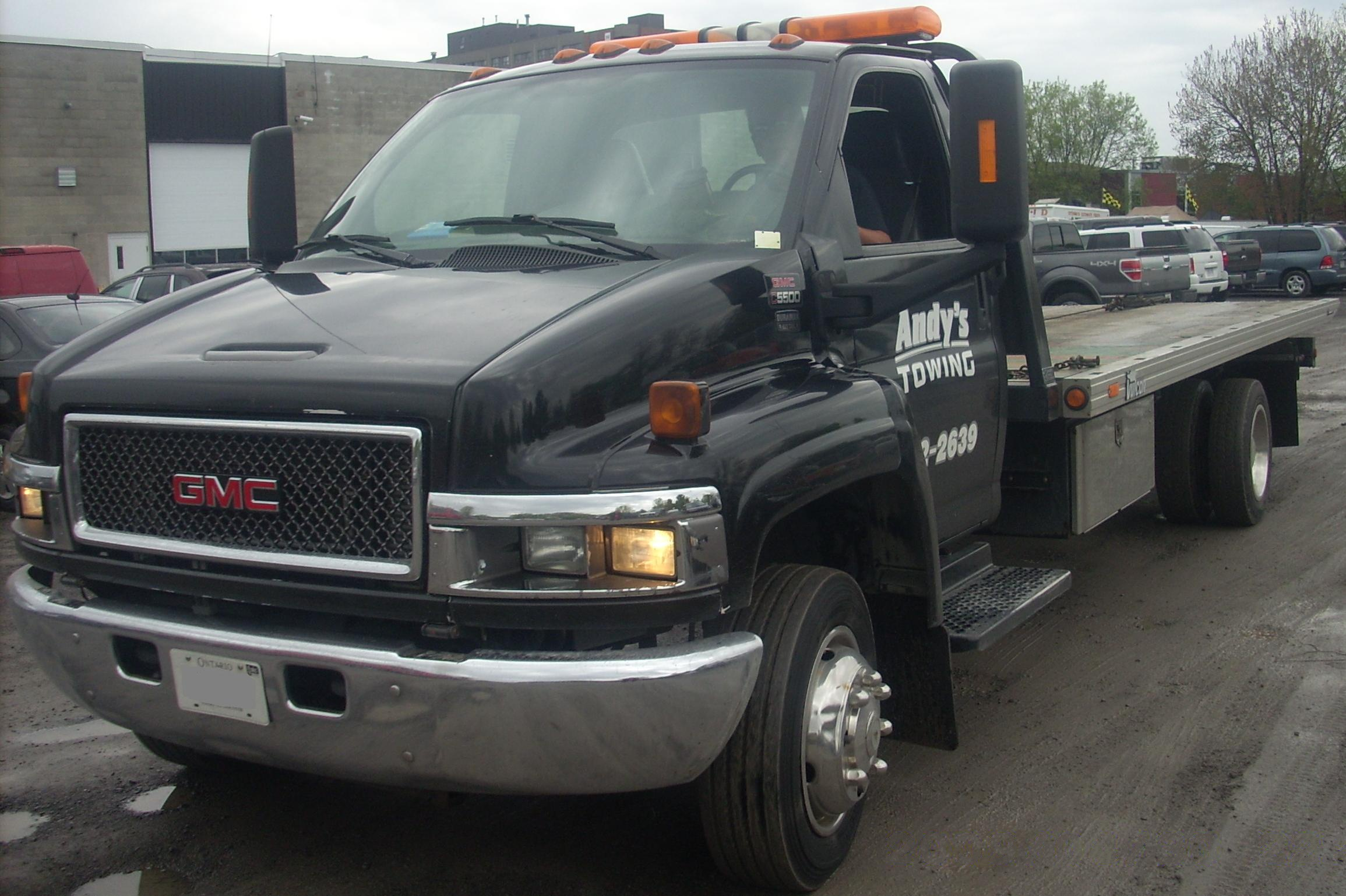 GMC C5500 Topkick photographed at the 2009 Sterling Ford Ottawa Auto Show.